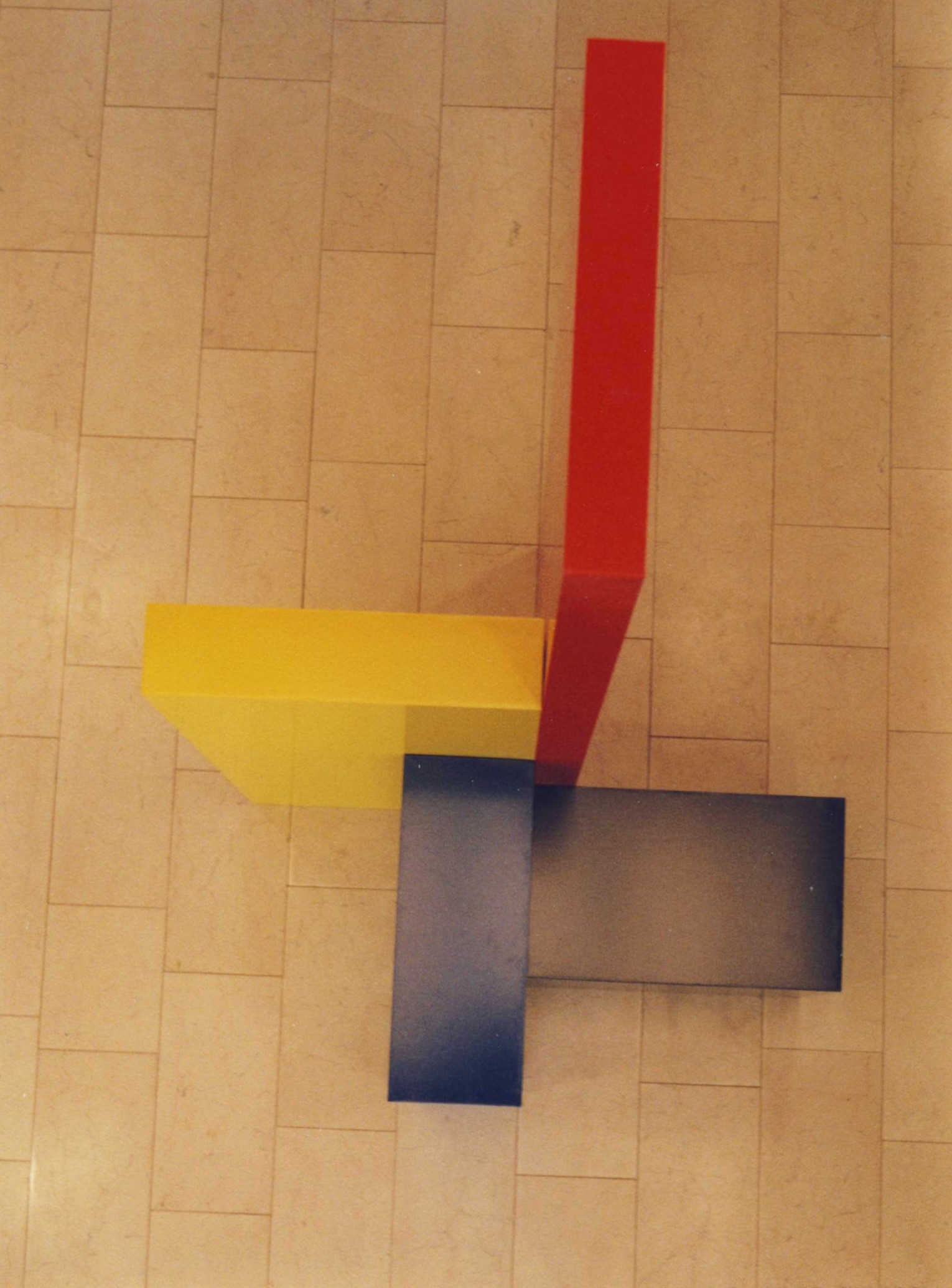 Jo Niemeyer, Skulptur at the Kunsthalle Villa Kobe in Halle, built by Jesus Perez Franco